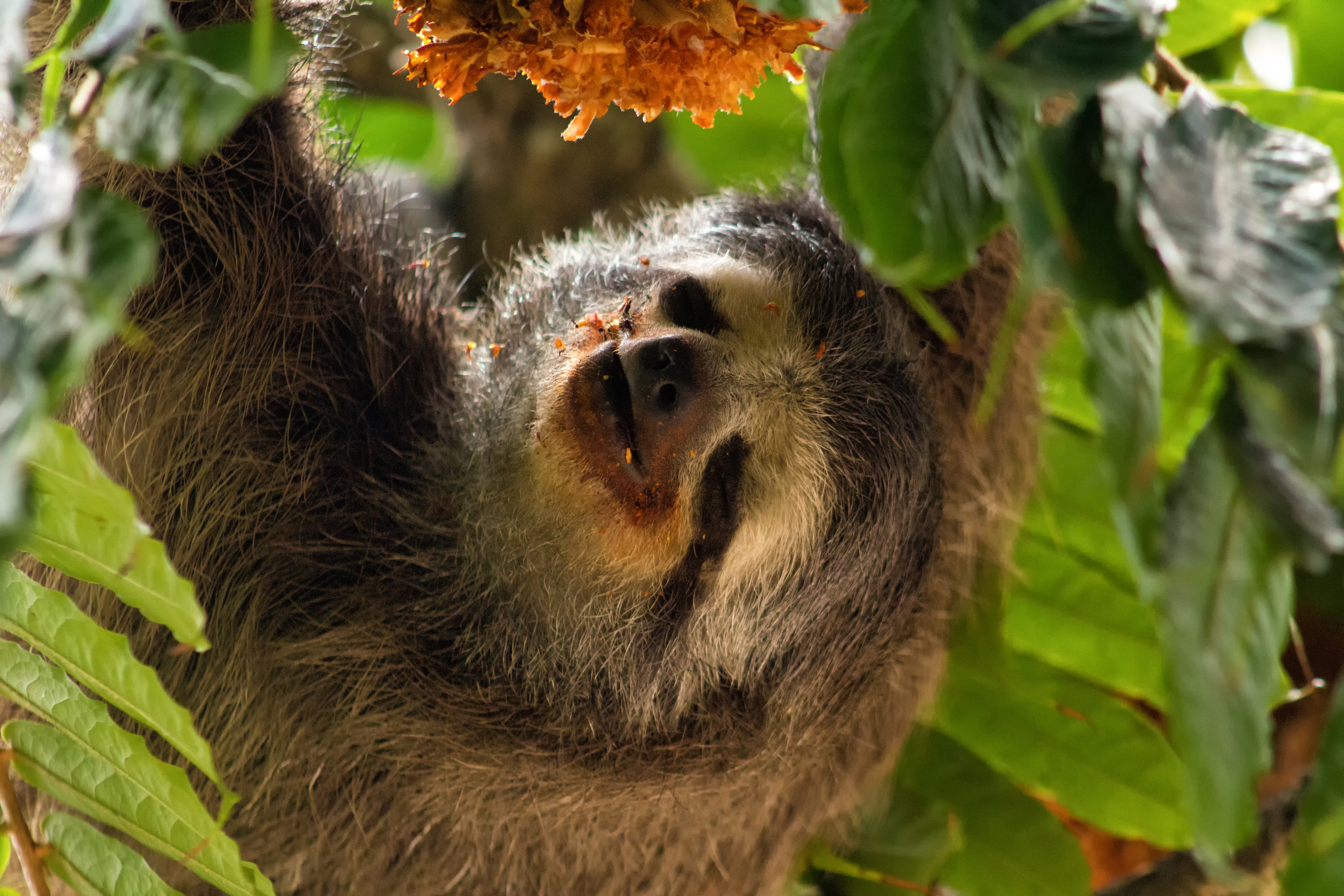 A Pale-throated sloth in Parque del Este, Caracas, Venezuela.